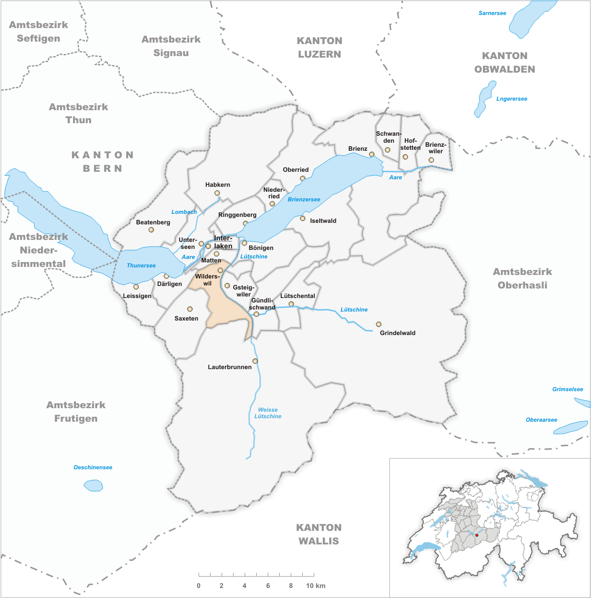 Municipality Wilderswil